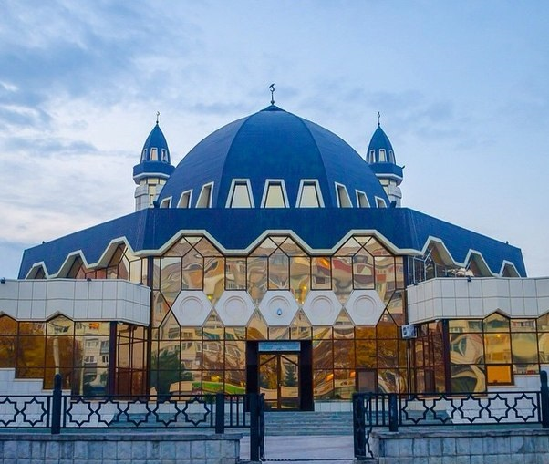 Central mosque in Nalchik. Rear entry